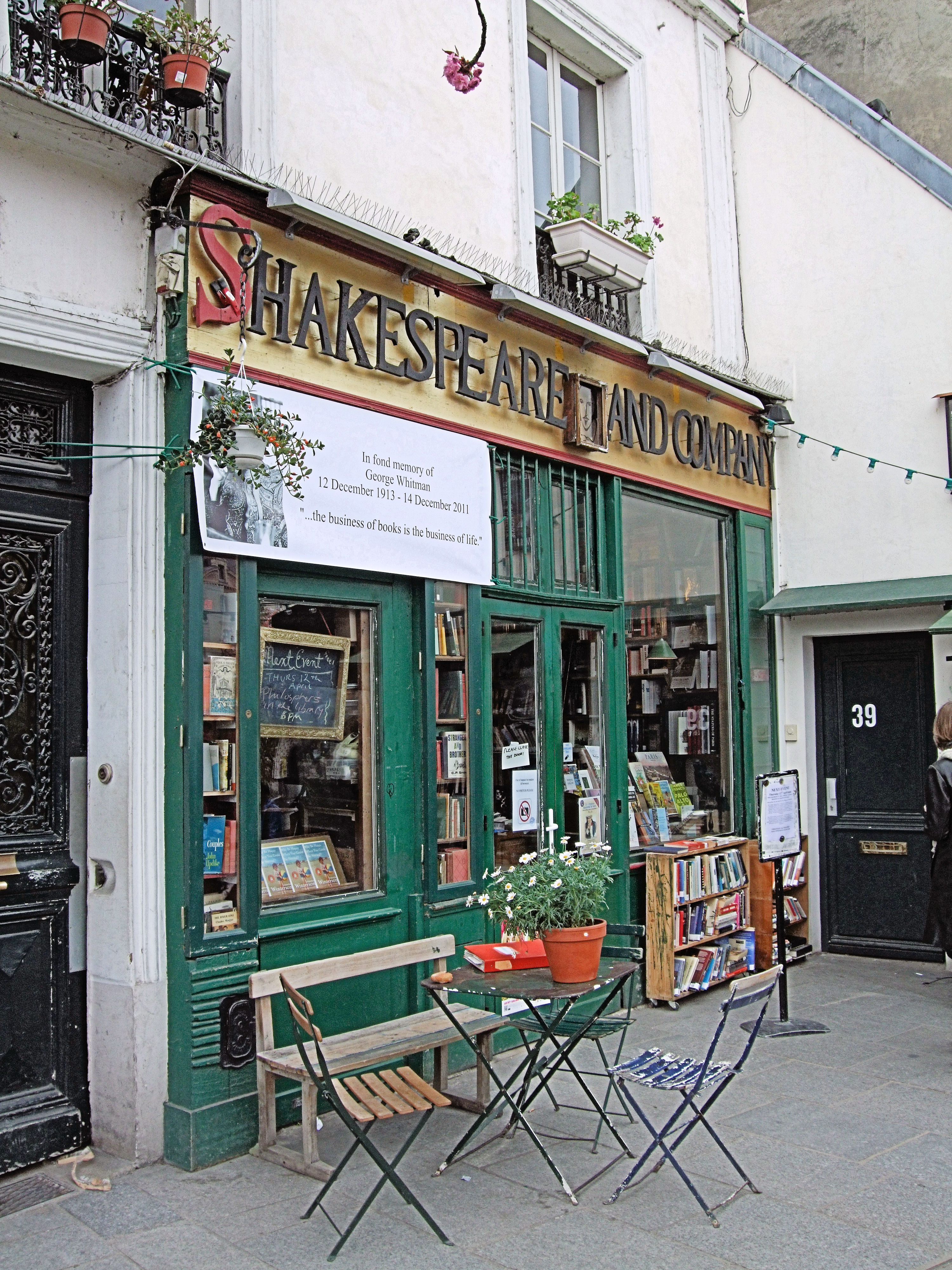 The shop was featured in the Richard Linklater film Before Sunset and in the Woody Allen film Midnight in Paris.